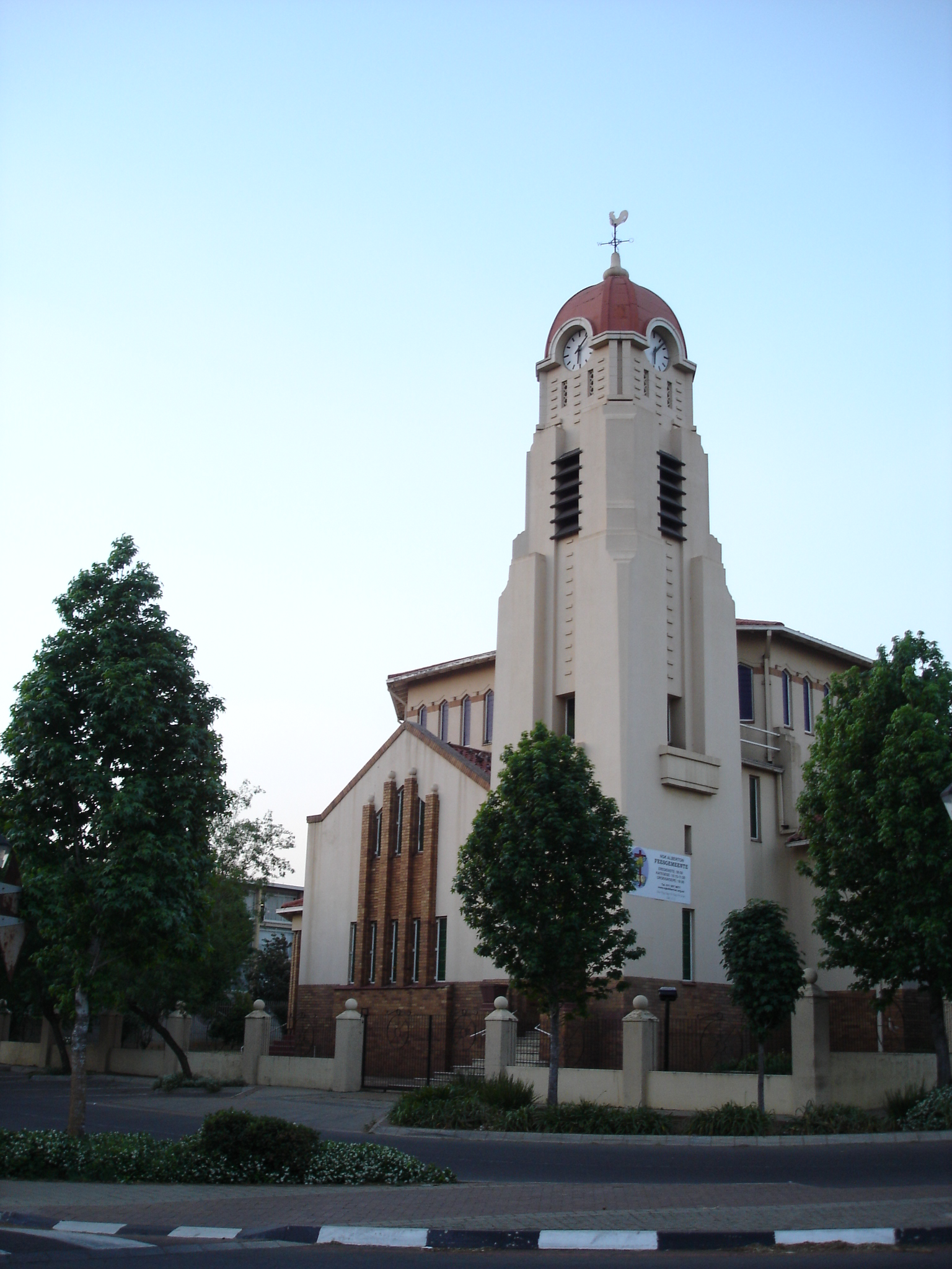 N.G Kerk 'Moedergemeente' - Alberton North